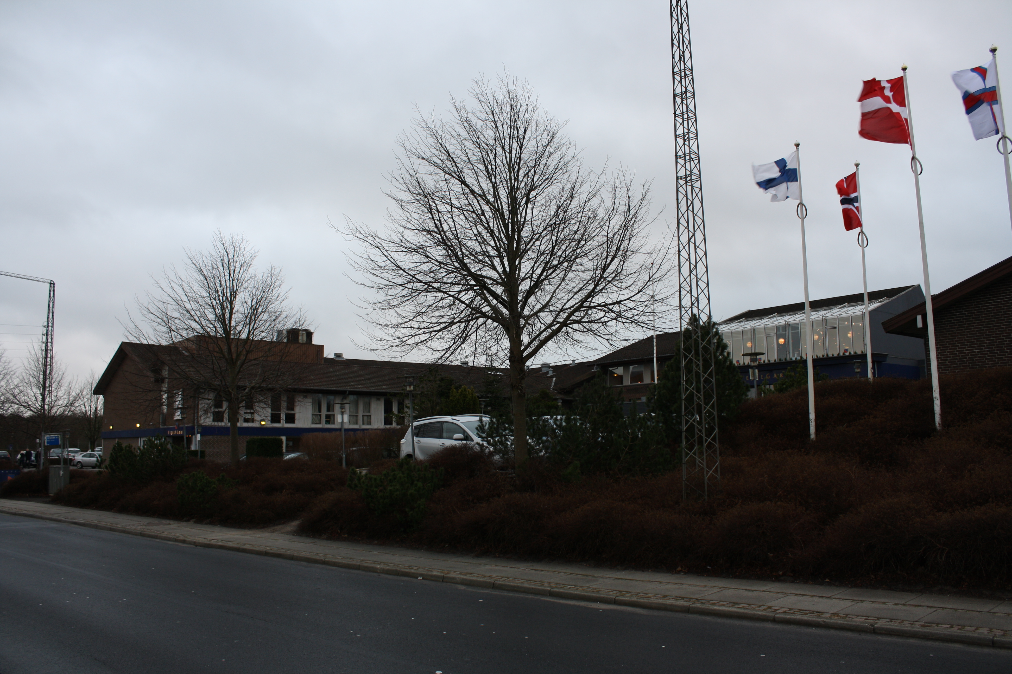 Build 1969-1971 and expanded multiple times